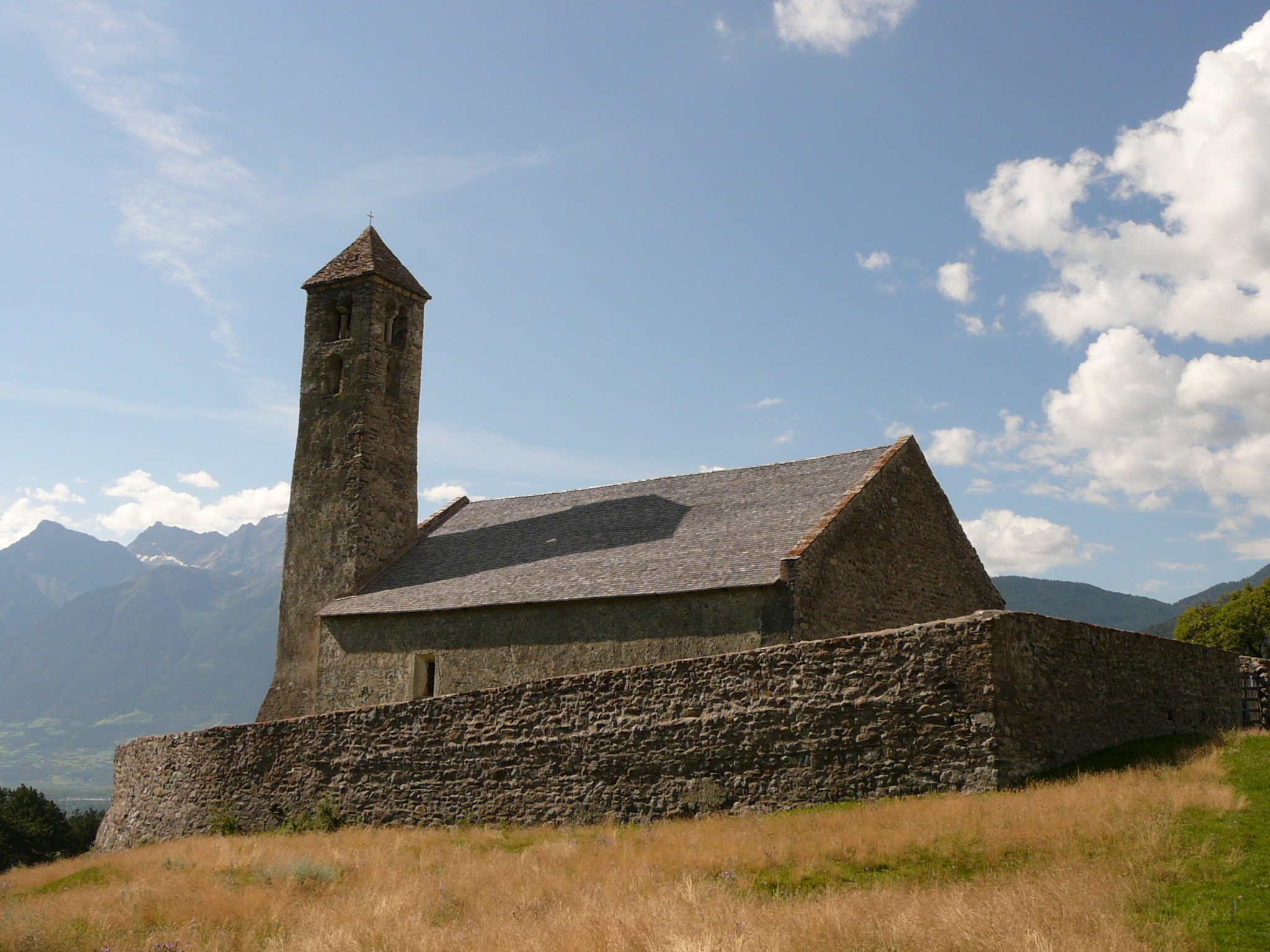 Tartsch Church, Mals, South Tyrol Italy.